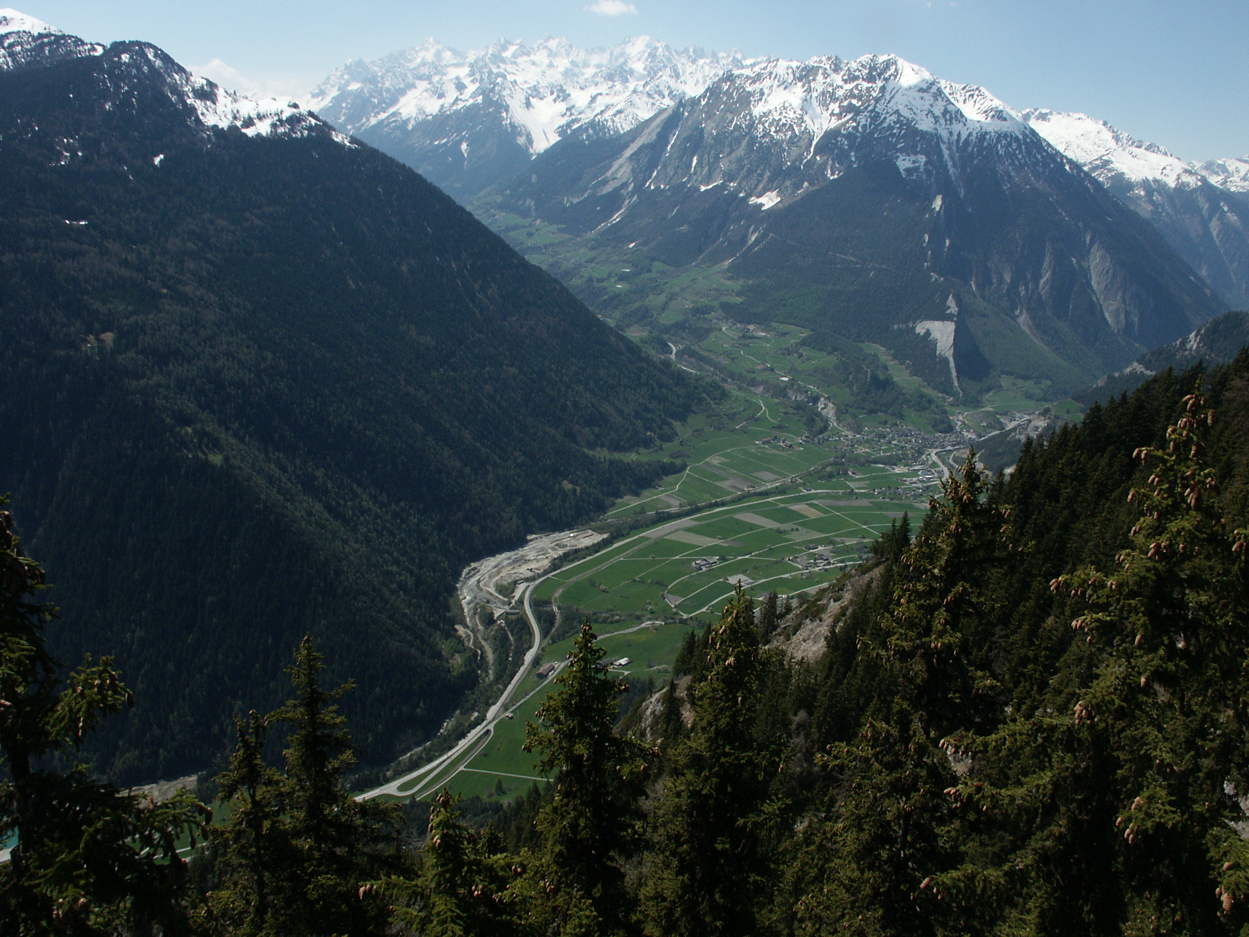 View of Vollèges and Sembrancher in Valais, Switzerland